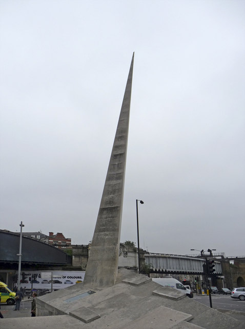 Southwark Needle, London SE1 The bridge carrying the railway over Borough High Street can be seen to the right of the Needle.